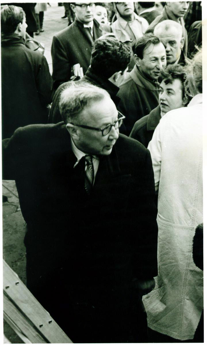 Sir Robert Watson-Watt KCB, FRS, FRAeS, the 'inventor' (scientist who developed the practical application) of radar, seen here descending from a plinth in Trafalgar Square, London, on Saturday 18 February, 1961, after speaking at a rally protesting the spread of nuclear weapons.